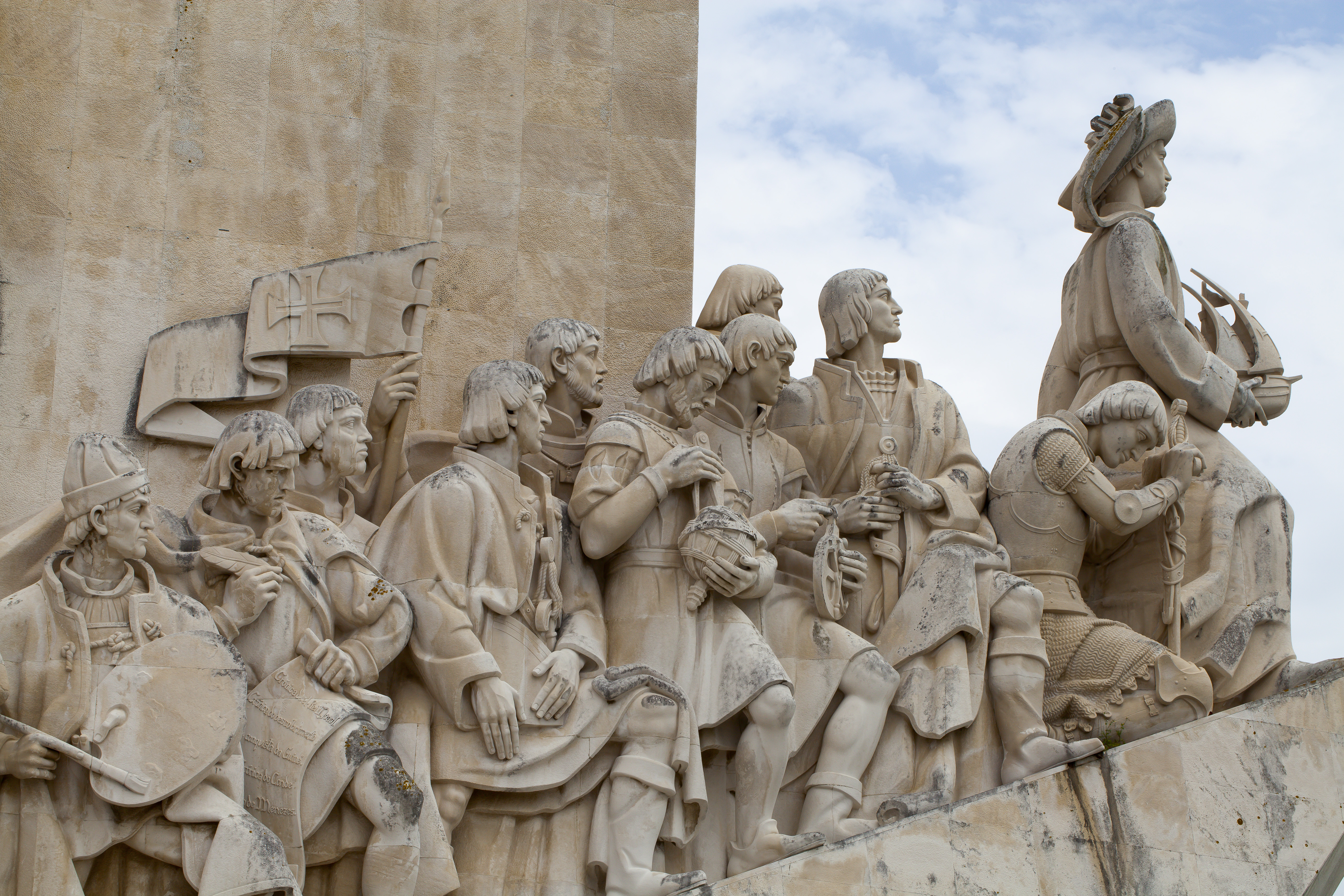 Monument to the Discoveries in Belém (Lisbon), Portugal